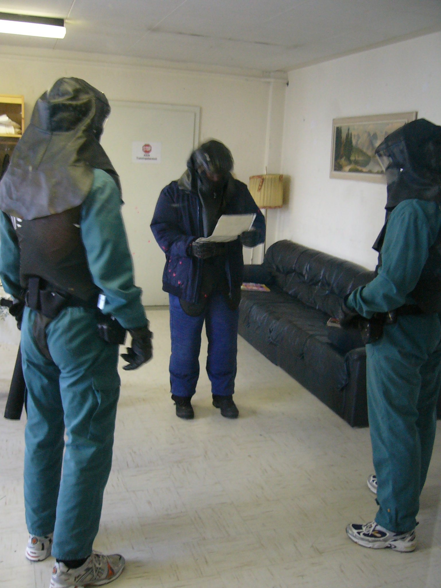 Issue of orders prior to a shooting and fight training at the Police of München, Germany.